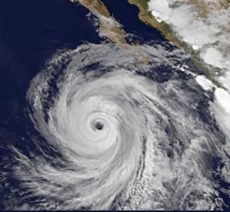 This image shows Hurricane Ileana (2006) in the Pacific Ocean at 0245 UTC on August 24, 2006. At the time, the storm was a Category 3 hurricane with sustained winds at 120 mph (195 km/h).